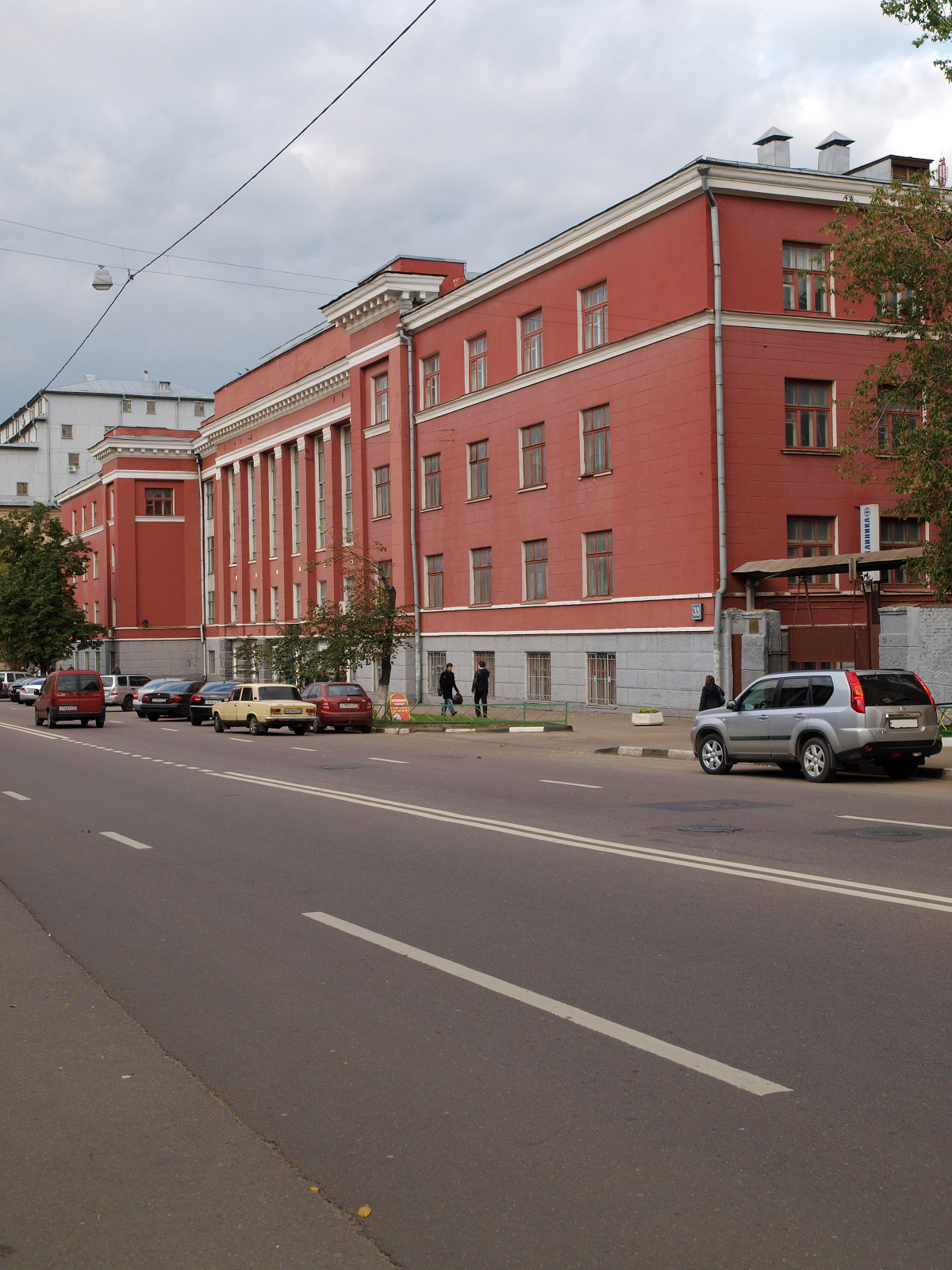 Talalikhina Street, Moscow.